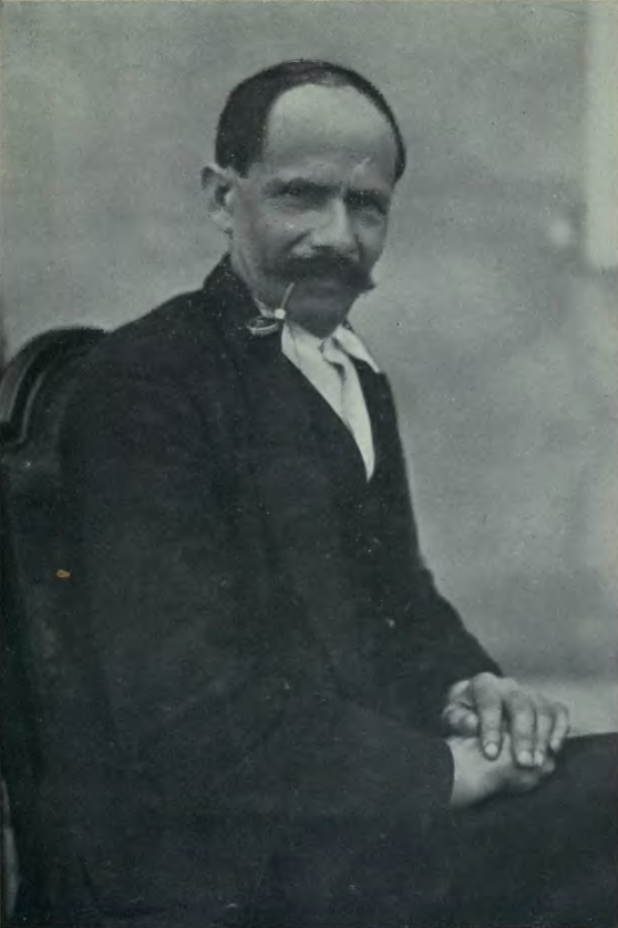 George Nyistor, labourer, assitant commissary for agriculture in the Hungarian Soviet government, 1919.